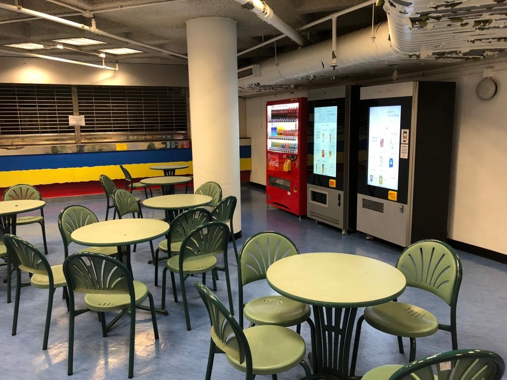 A smart vending console deployed at Tso Kung Tam Outdoor Recreation Centre.